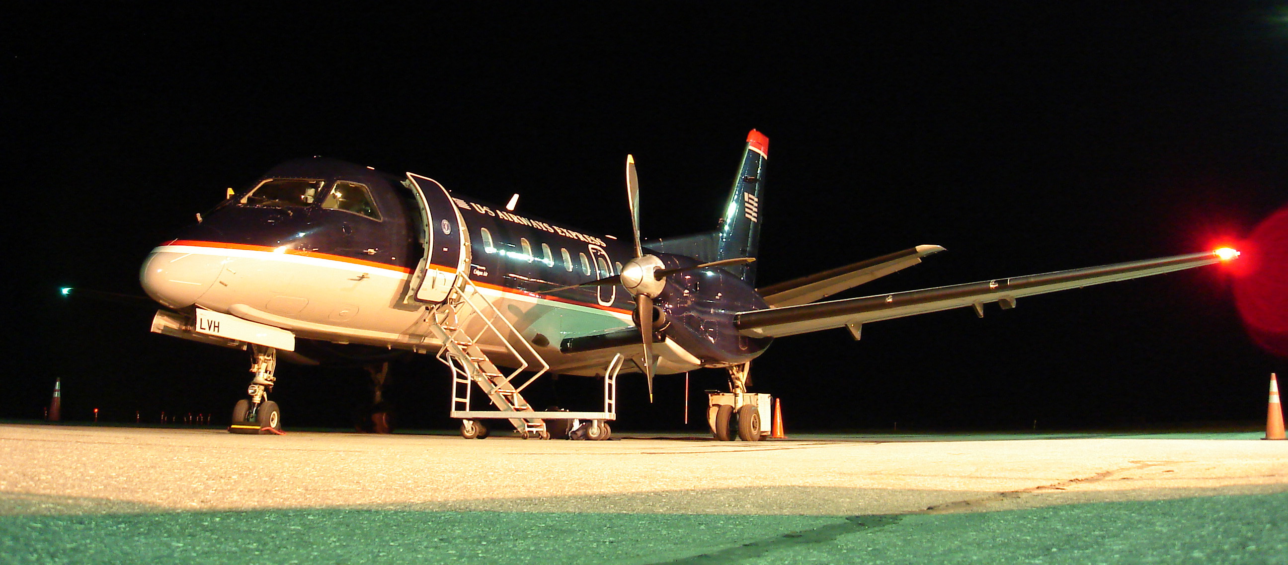 Colgan Air Saab 340B September 1st, 2005 Photo by: Rubyk